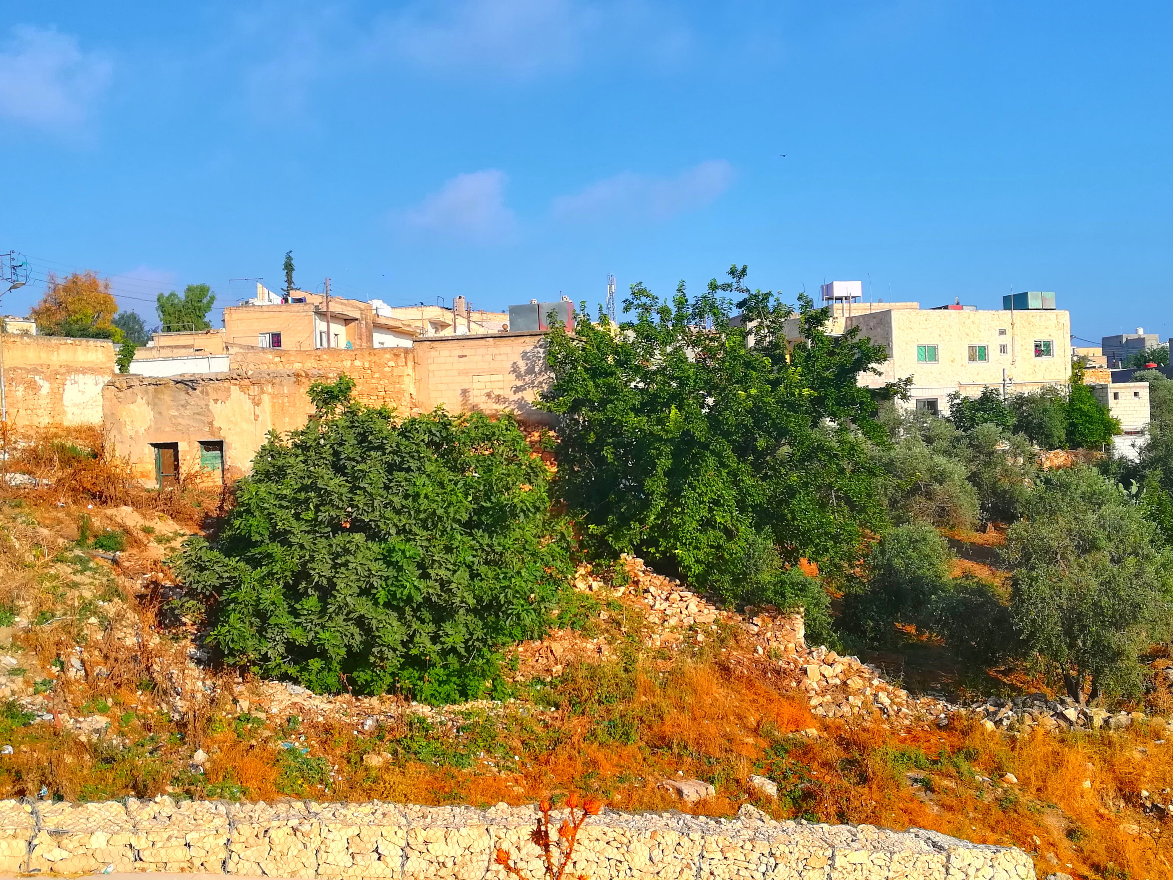 Malka village in northern Jordan